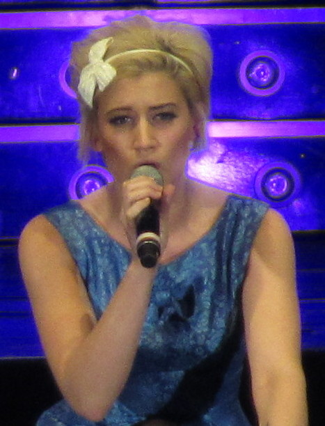 Katie Waissel, The X Factor Live, SECC, Glasgow, 1 April 2011